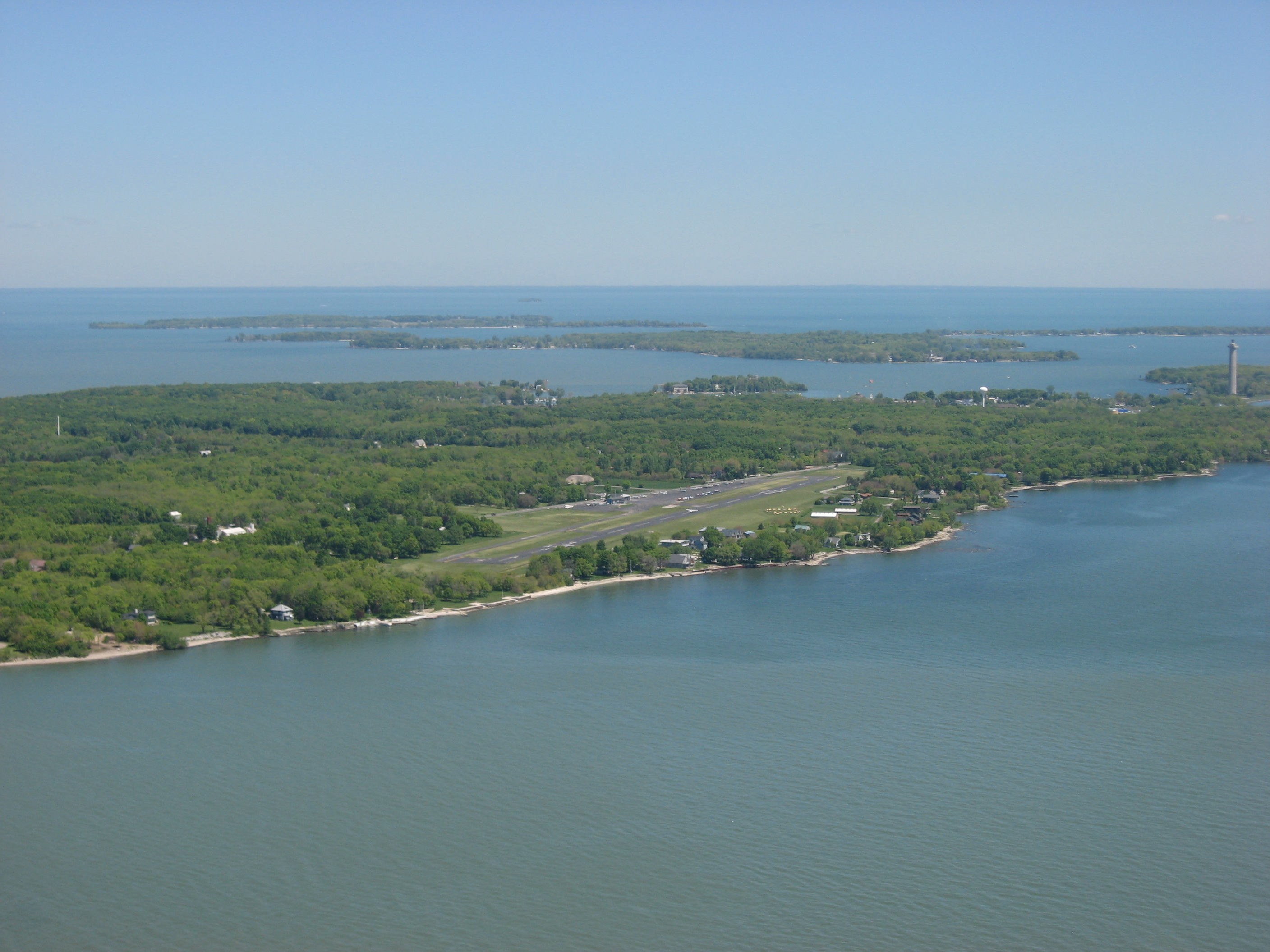 Aerial view of the Put-in-Bay Airport on South Bass Island, one of the Bass Islands of Lake Erie, in Ottawa County, Ohio, United States. Note Perry's Victory and International Peace Memorial located in line with Runway 21. Picture taken from a Diamond Eclipse light airplane at an altitude of 1,300 feet MSL and a bearing of approximately 310º.